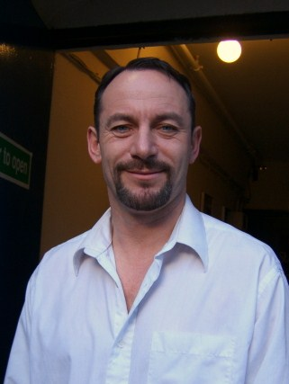 British actor Jason Isaacs, photographed on March 3, 2007, by Serphina426, after a performance of Harold Pinter's The Dumb Waiter at Trafalgar Studios in London. [For photographer's response to query, see Talk:Seraphina426, of October 29, 2007.]